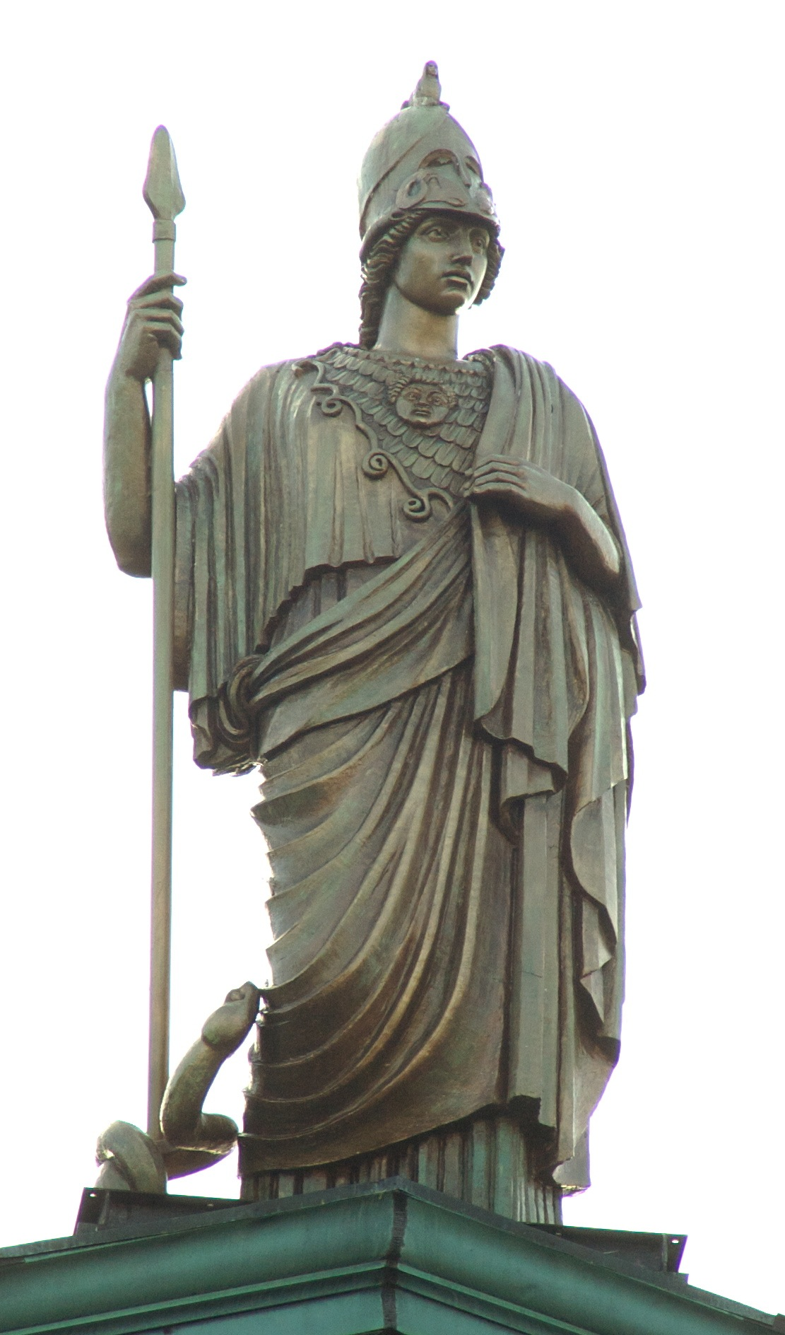 A statue of Athena, the Greek goddess of wisdom, adorns the roof of the Athenaeum Press building in Cambridge, Massachusetts. Sculptor: Adio diBiccari.